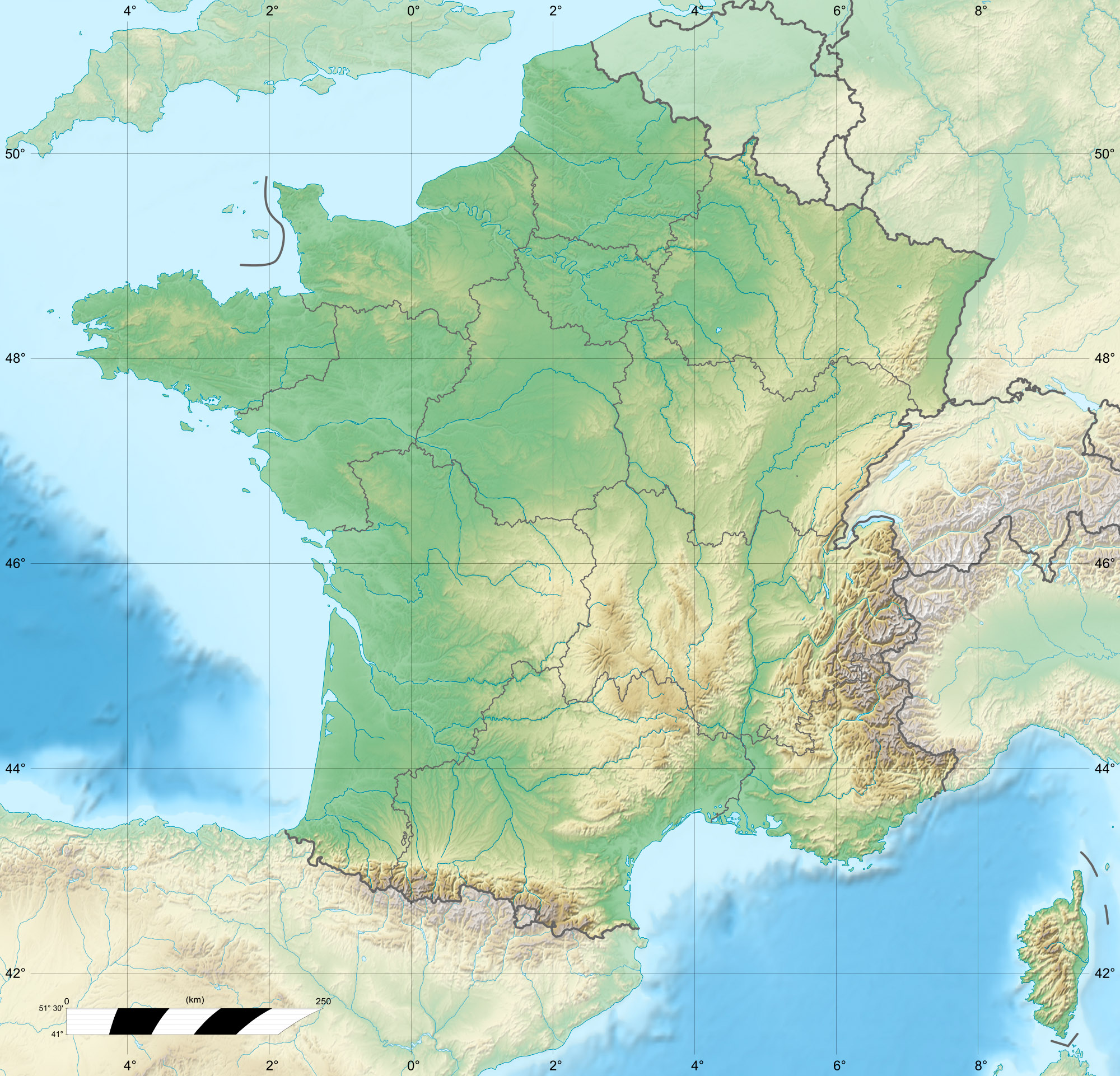 Blank physical map of metropolitan France for geo-location purpose.Scale : 1:14 816 000 (accuracy : about 3,7 km) for the bathymetry. More maps of France, view → Commons Atlas of France.